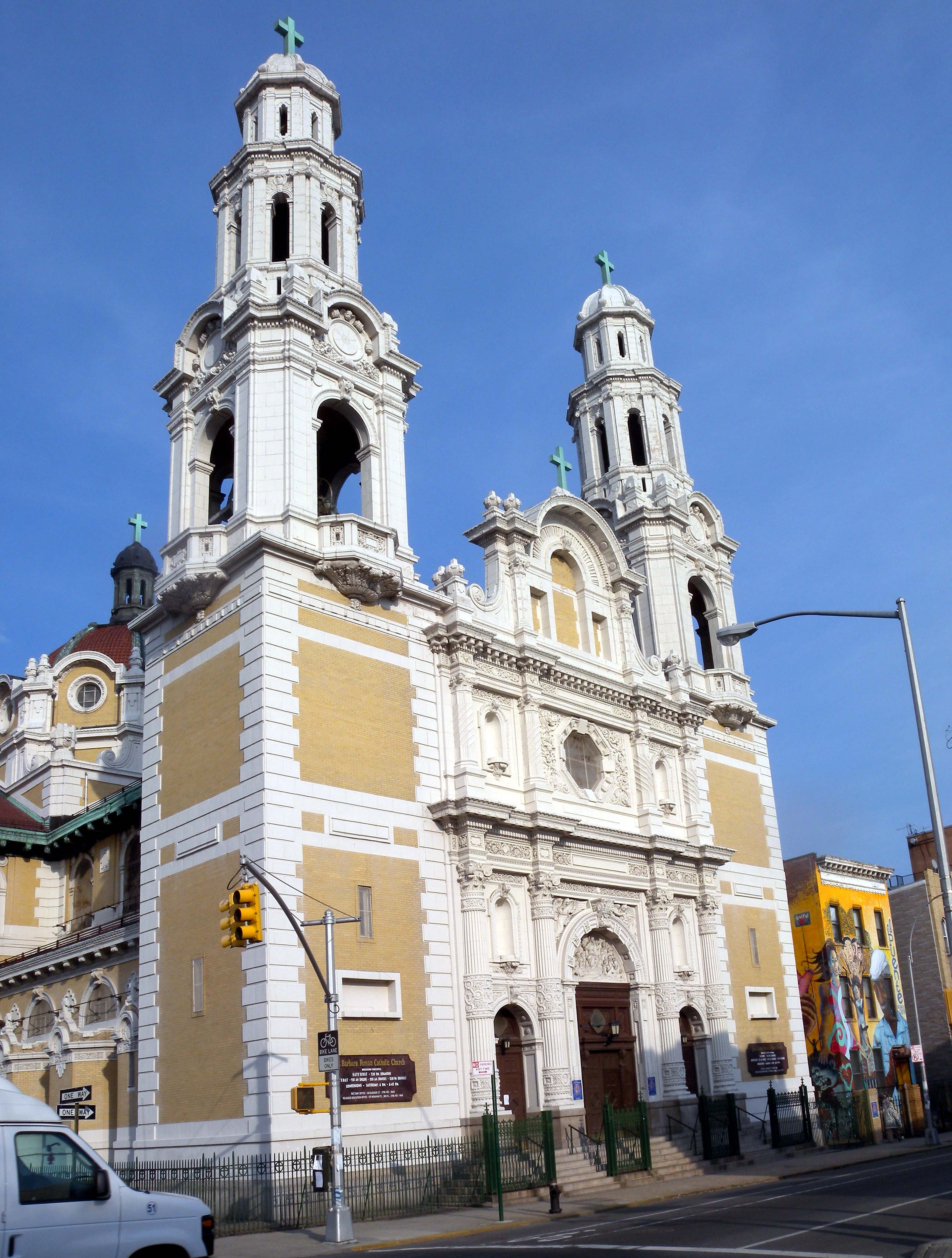 Looking east across Bleecker Street and Central Avenue at Saint Barbara's Roman Catholic Church on a sunny afternoon.